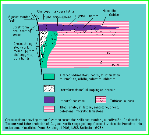 Cross section of the Minnesota Cuyuna North Range layers